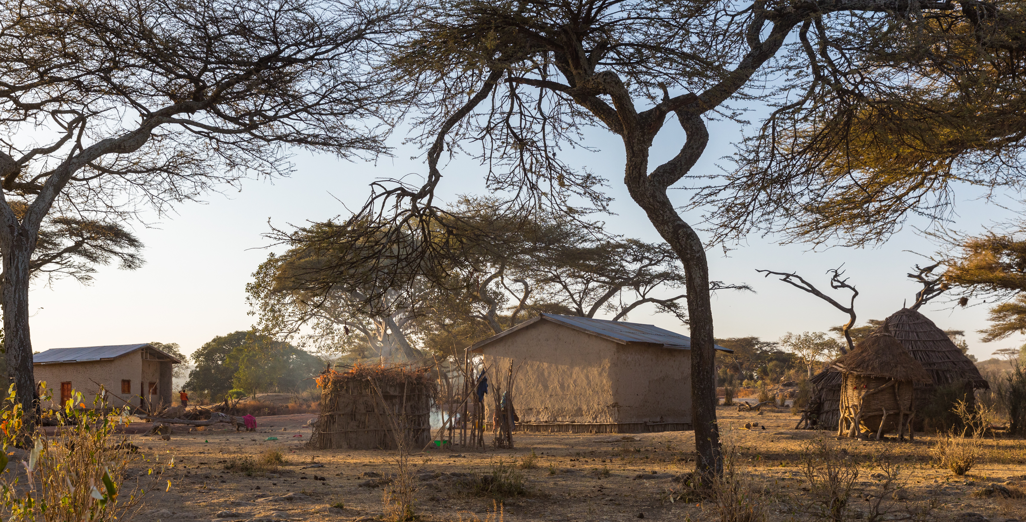 African dwellings in Oromia, Ethiopia. Lake Langano area.